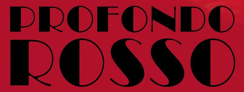 Logo of the movie Deep Red